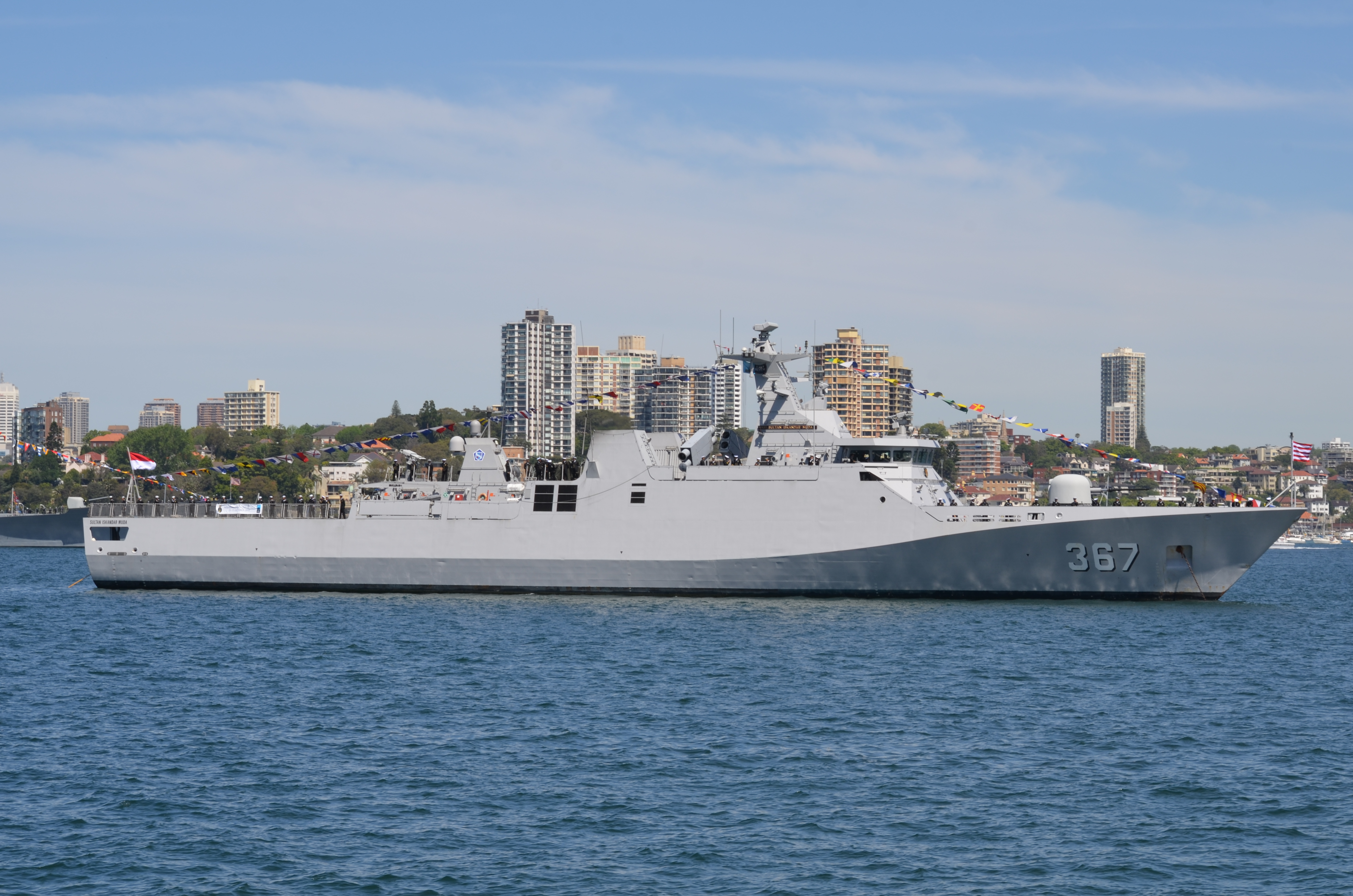 Photographs taken during day 3 of the Royal Australian Navy International Fleet Review 2013. Indonesian corvette Sultan Iskander Maru, moored in Sydney Harbour.